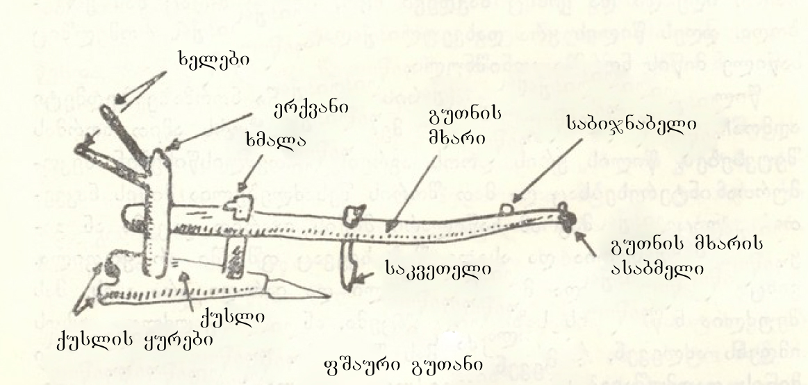 Phshav Plough